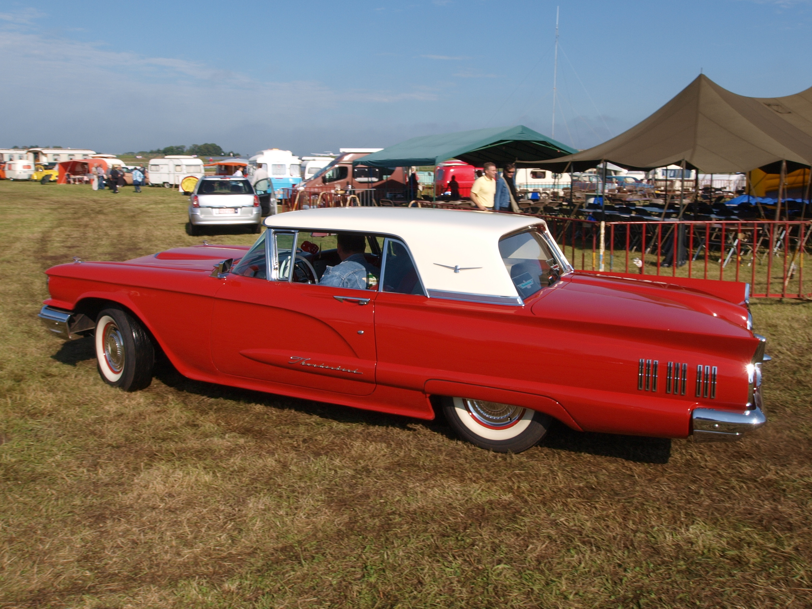 Photographed at the International Oldtimer Fly-In, Belgium.